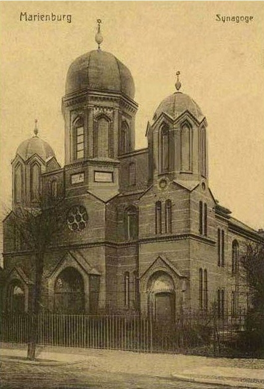 Synagogue of Marienburg (now Malbork in Poland); built in 1898 and destroyed during the Cristal Nacht in 1938 by the Nazis.